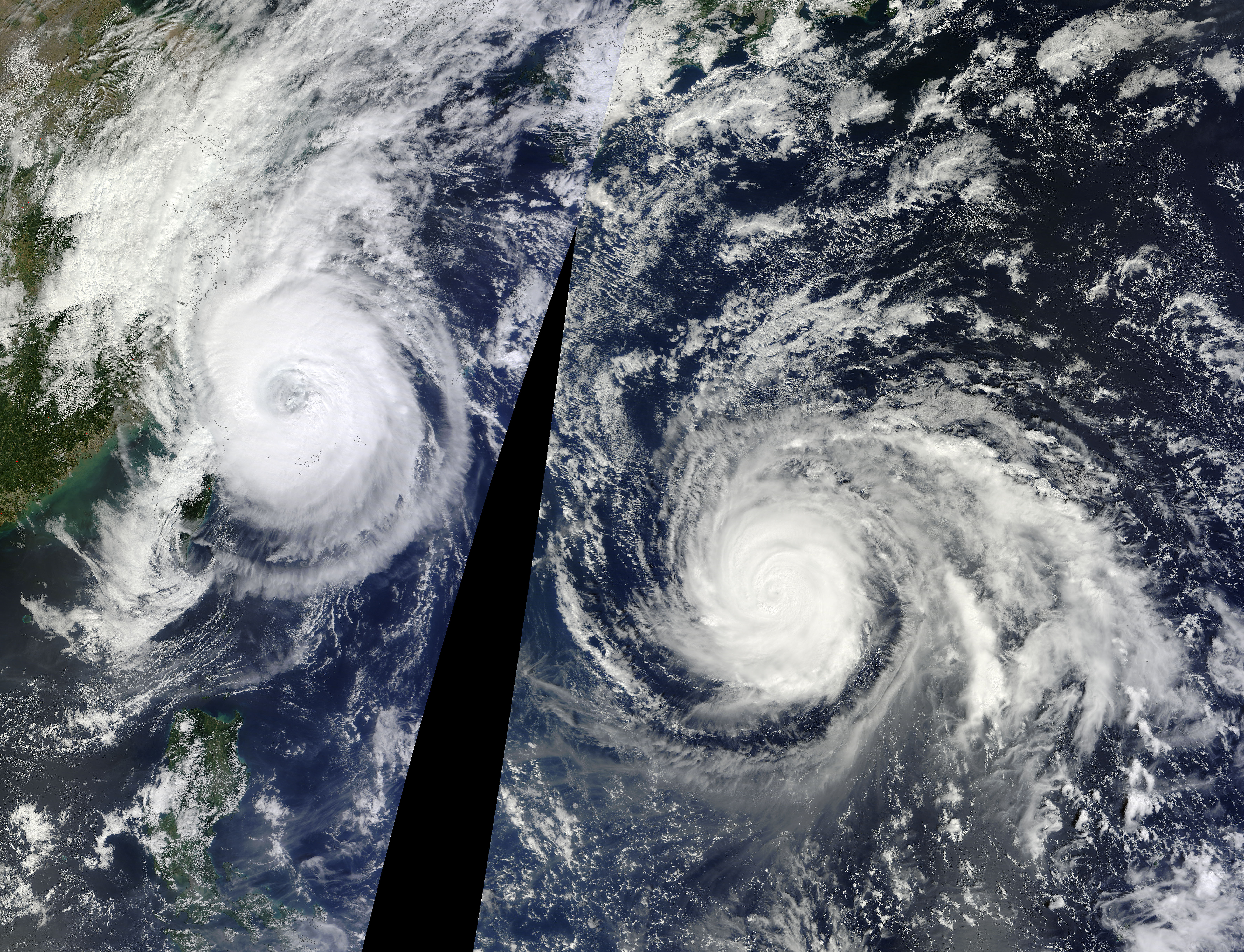 Typhoon Fitow (22W) and Tropical Storm Danas (23W) in the Pacific Ocean on October 6,2013